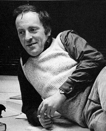 Photograph of Josef Brodsky, teaching at University of Michigan